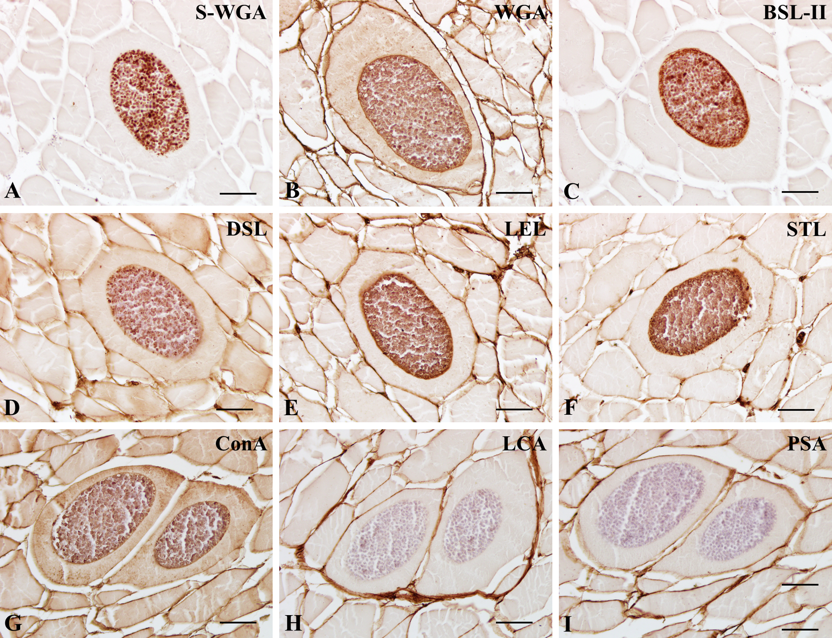 Figure 2 of the paper Lectin histochemical findings of N-acetylglucosamine (S-WGA, WGA, BSL-II, DSL, LEL, STL) and mannose groups (Con A, LCA, PSA) in Kudoa septempunctata-infected muscles. A, S-WGA; B, WGA; C, BSL-II; D, DSL; E, LEL; F, STL; G, Con A; H, LCA; I, PSA. Scale bars in (A)–(I) represent 20 μm.